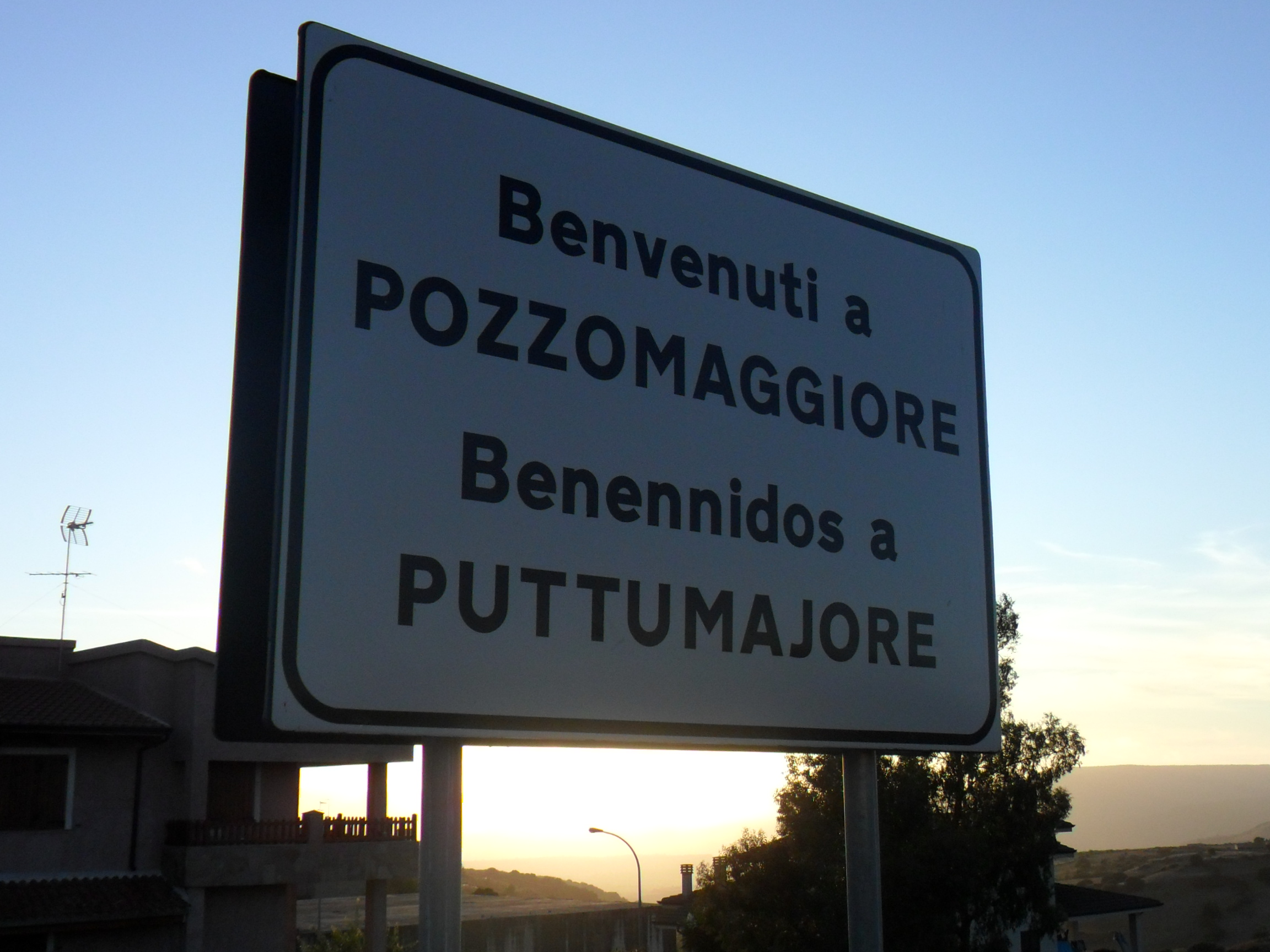 The sign at the entrance of Pozzomaggiore in Sardinia (Italy)